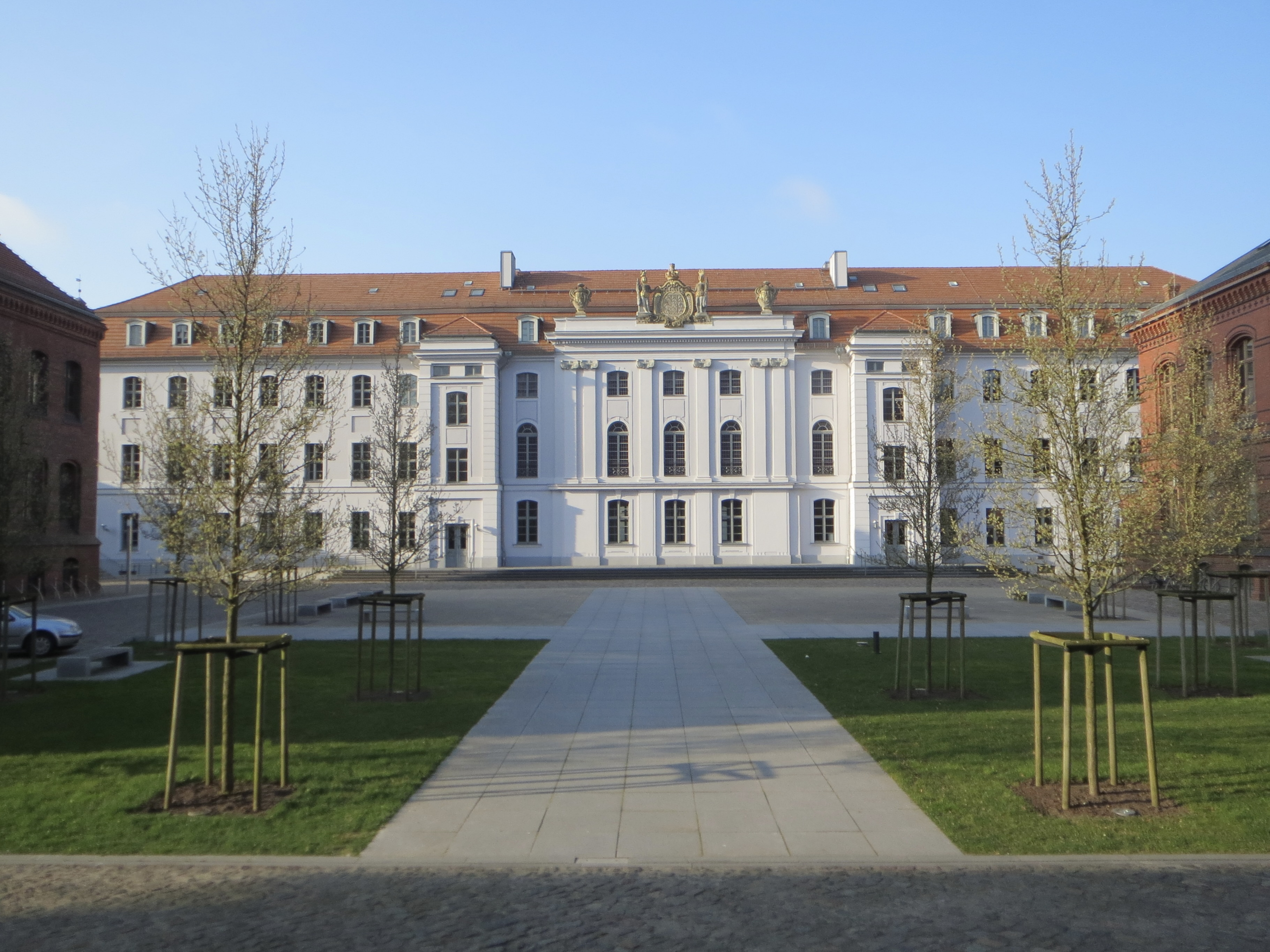 EMAU Main Building garden side